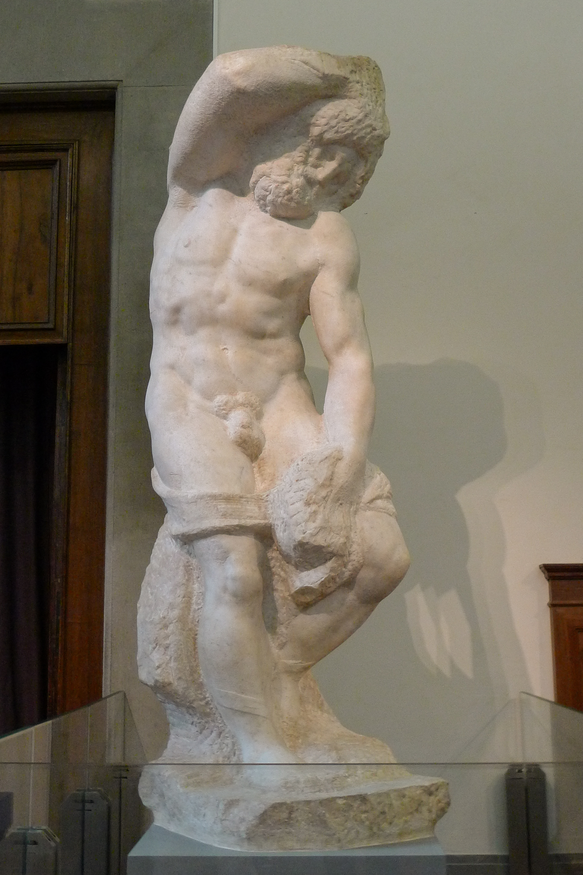 'Bearded Slave' by Michelangelo for the Julius Tomb, 1520-23? Florence, Galleria dell' Accademia